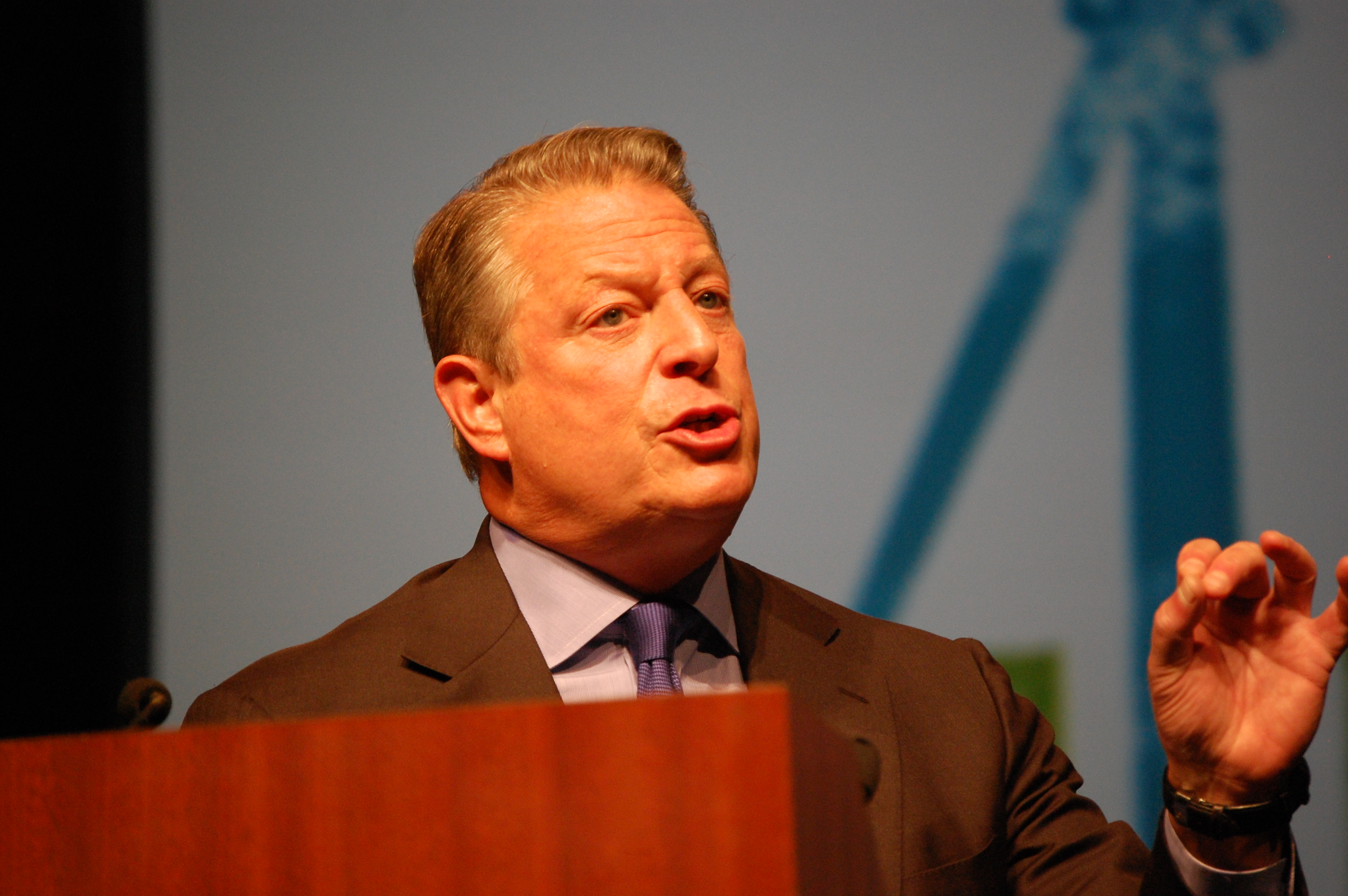 Former Vice-President Al Gore at Power Shift 2011 in Washington, D.C., where he was the first keynote speaker.